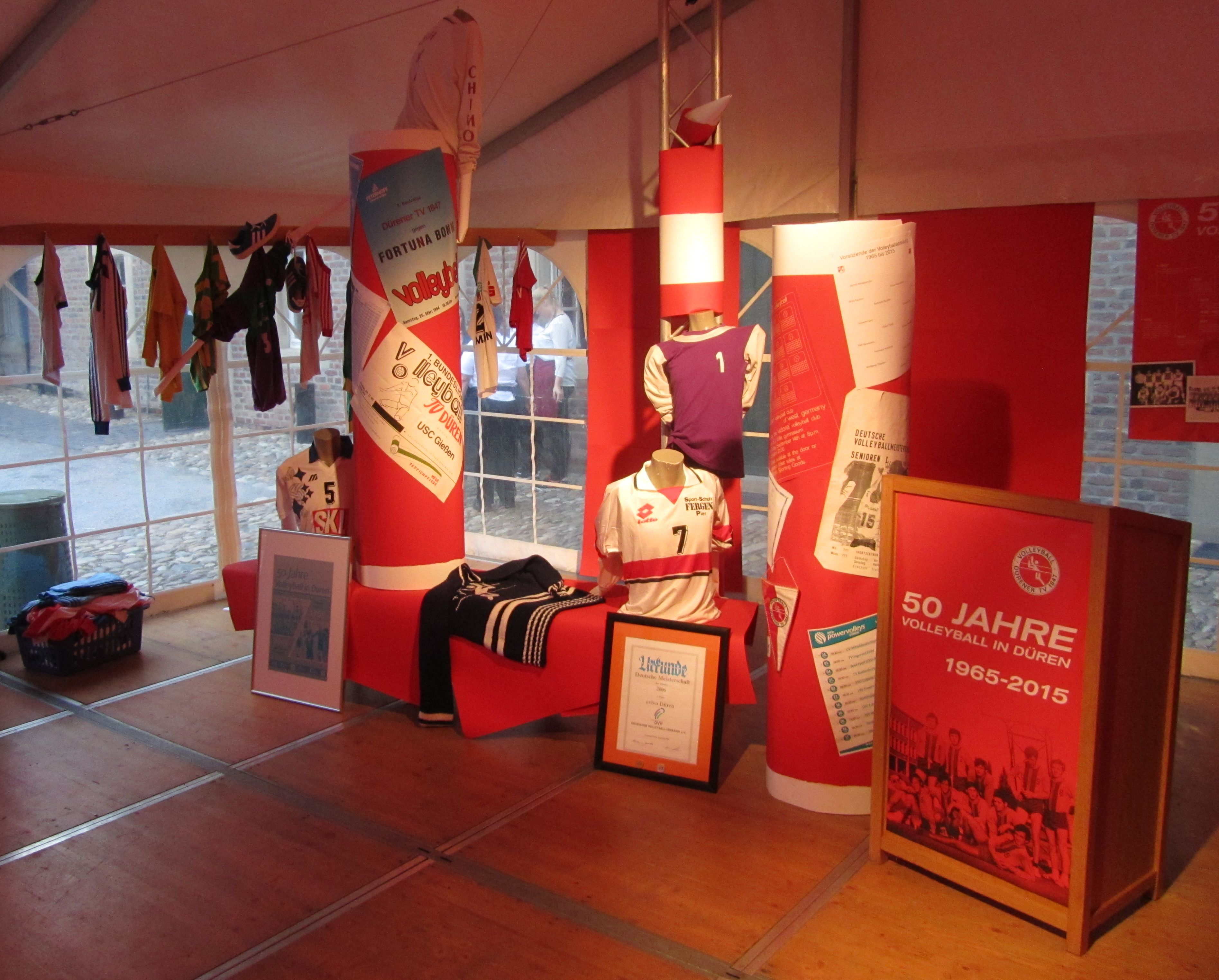 Old jerseys and posters of the volleyball teams in Düren, Germany, shown at the jubilee "50 years of Volleyball in Düren" at Schloss Burgau